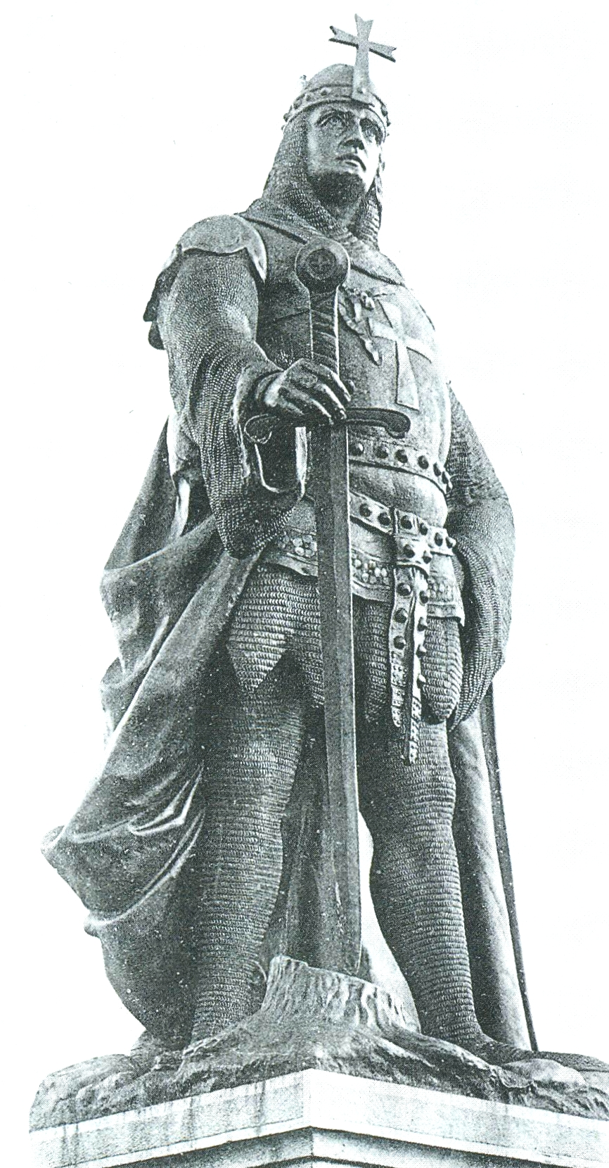 Memorial to Albrecht der Bär in Ballenstedt